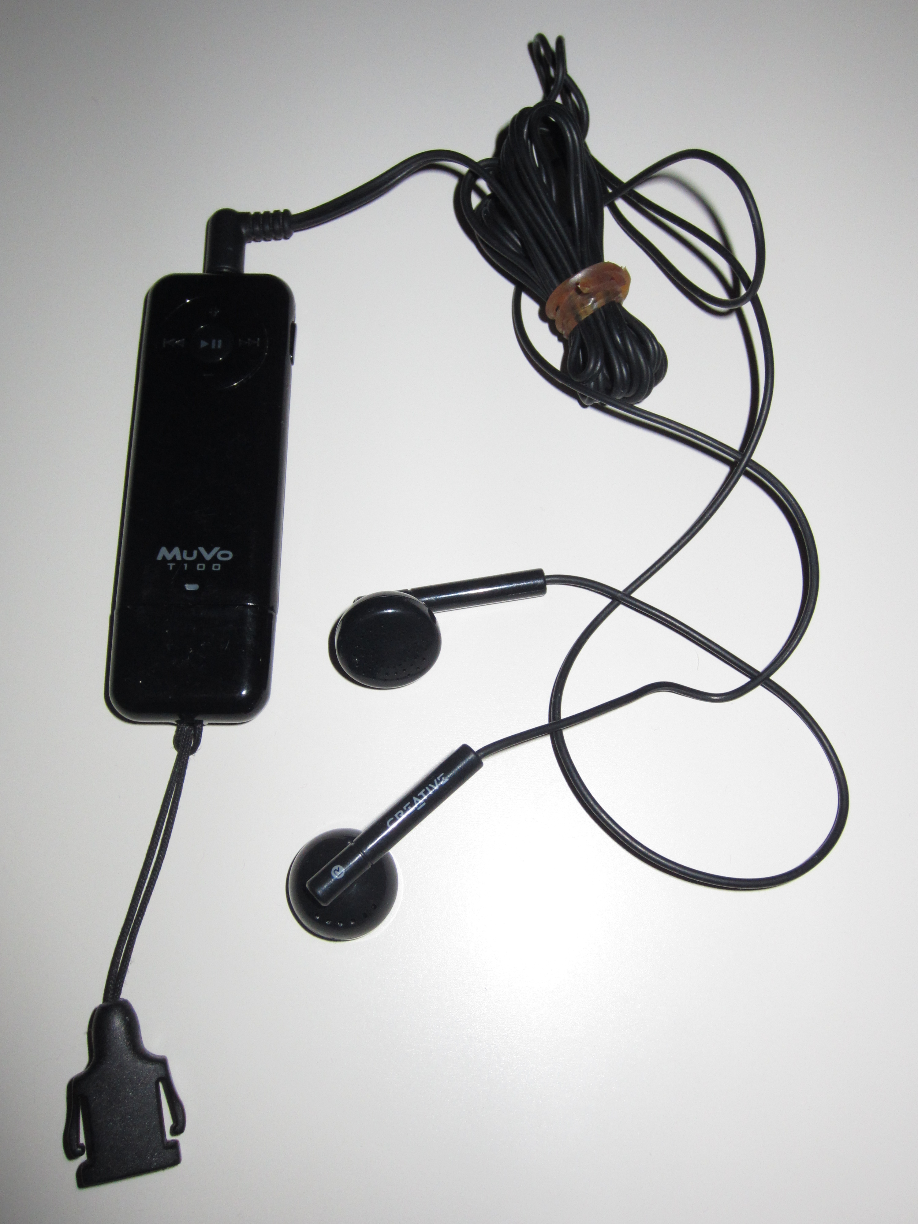 The portable audio player Creative MuVo T100